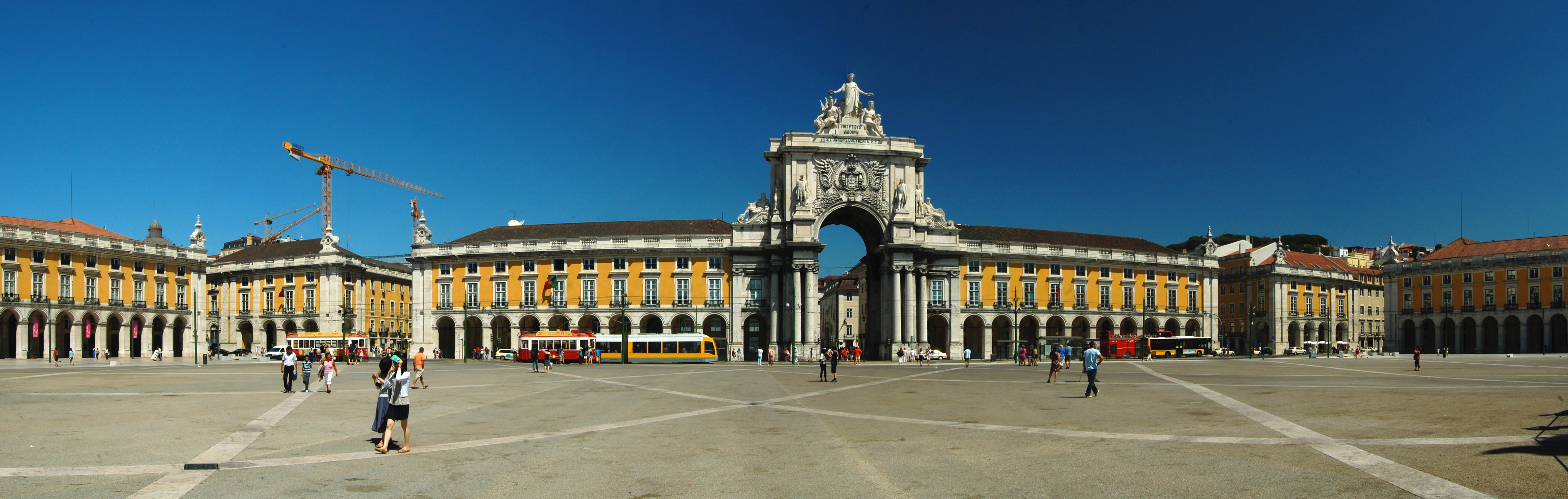 Panoramic view of Praca do Comercio, Lisbon